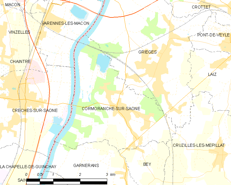 Map of French commune: Cormoranche-sur-Saône Map commune FR insee code 01123.png